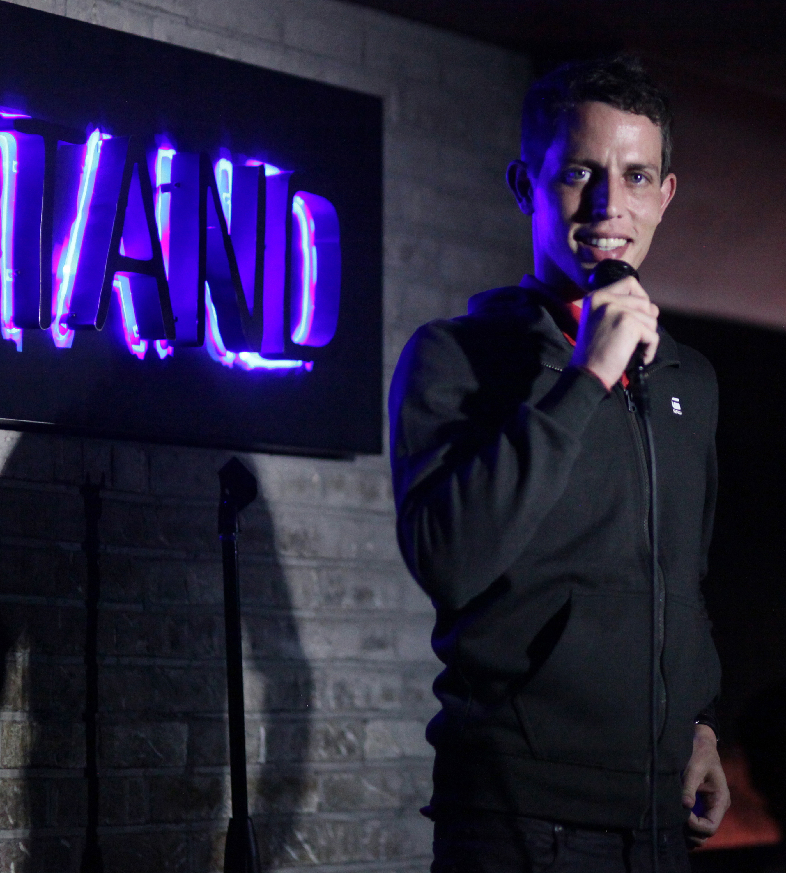 Hinchcliffe in August 2017